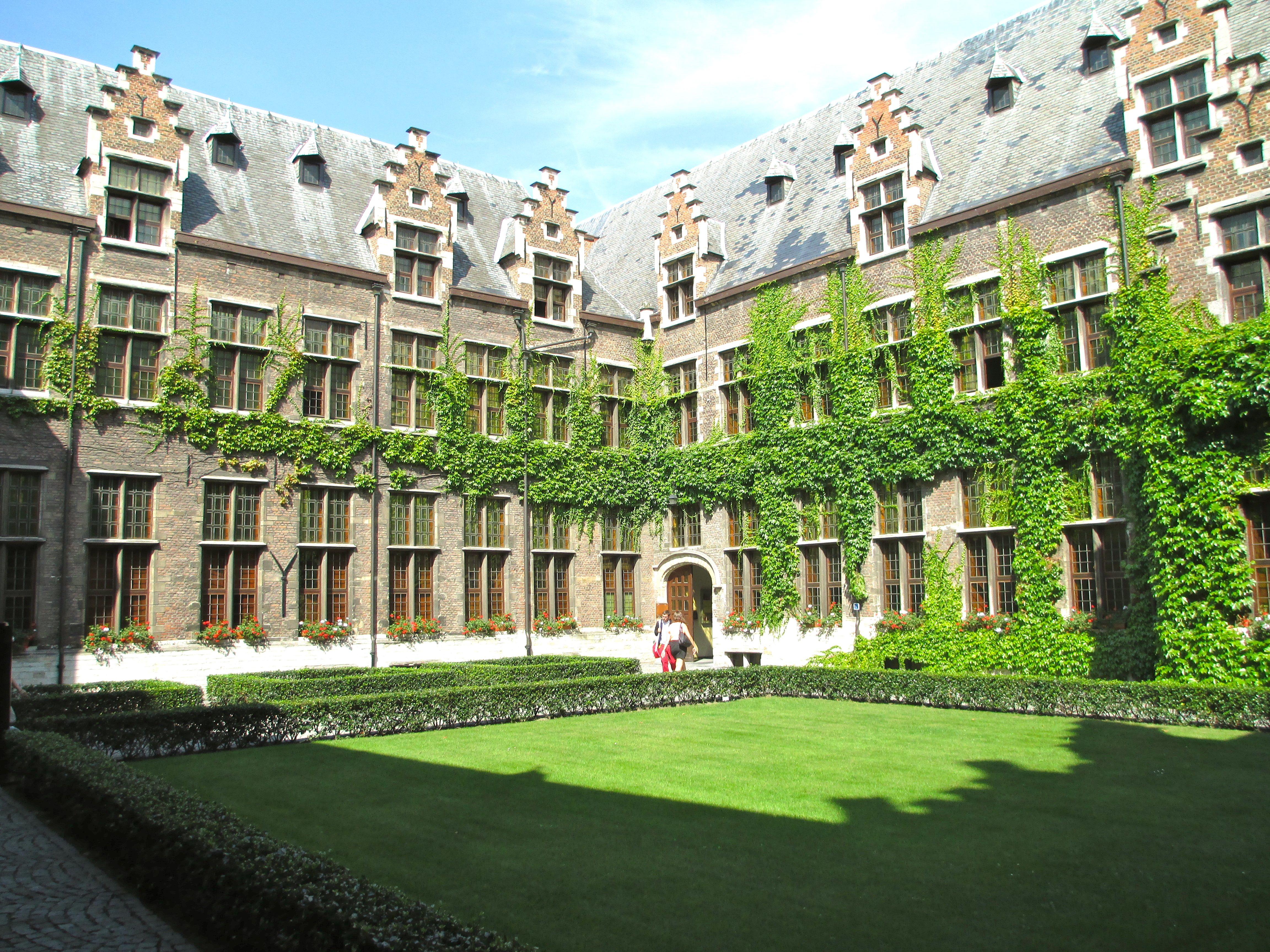 The courtyard of the Hof van Liere, the oldest building of the University of Antwerp, part of the Stadscampus